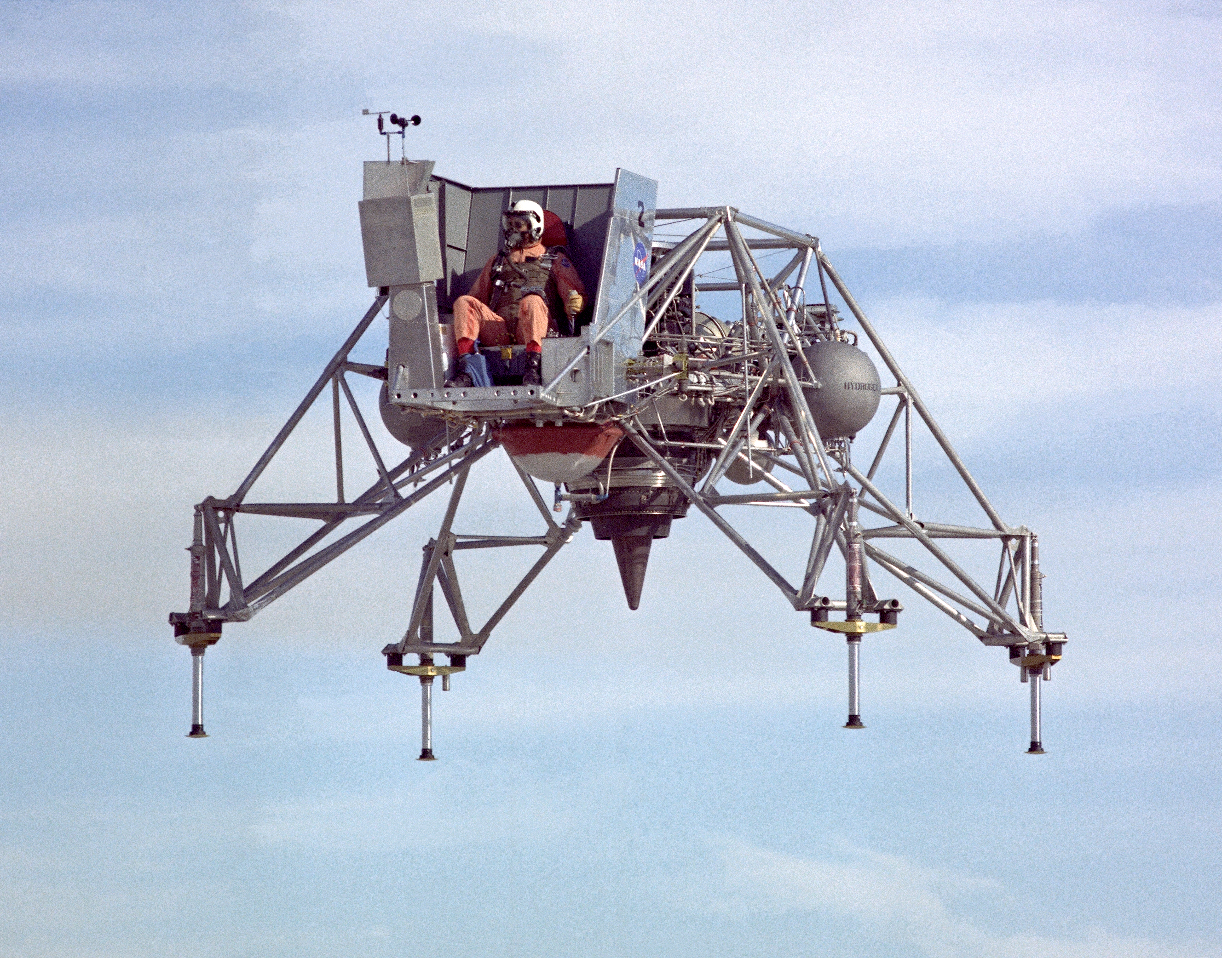 In this 1967 NASA Flight Research Center photograph the Lunar Landing Research Vehicle (LLRV) #2 is viewed from the front. This photograph provides a good view of the pilot’s platform with the restrictive cockpit view like that of the real Lunar Module (LM)